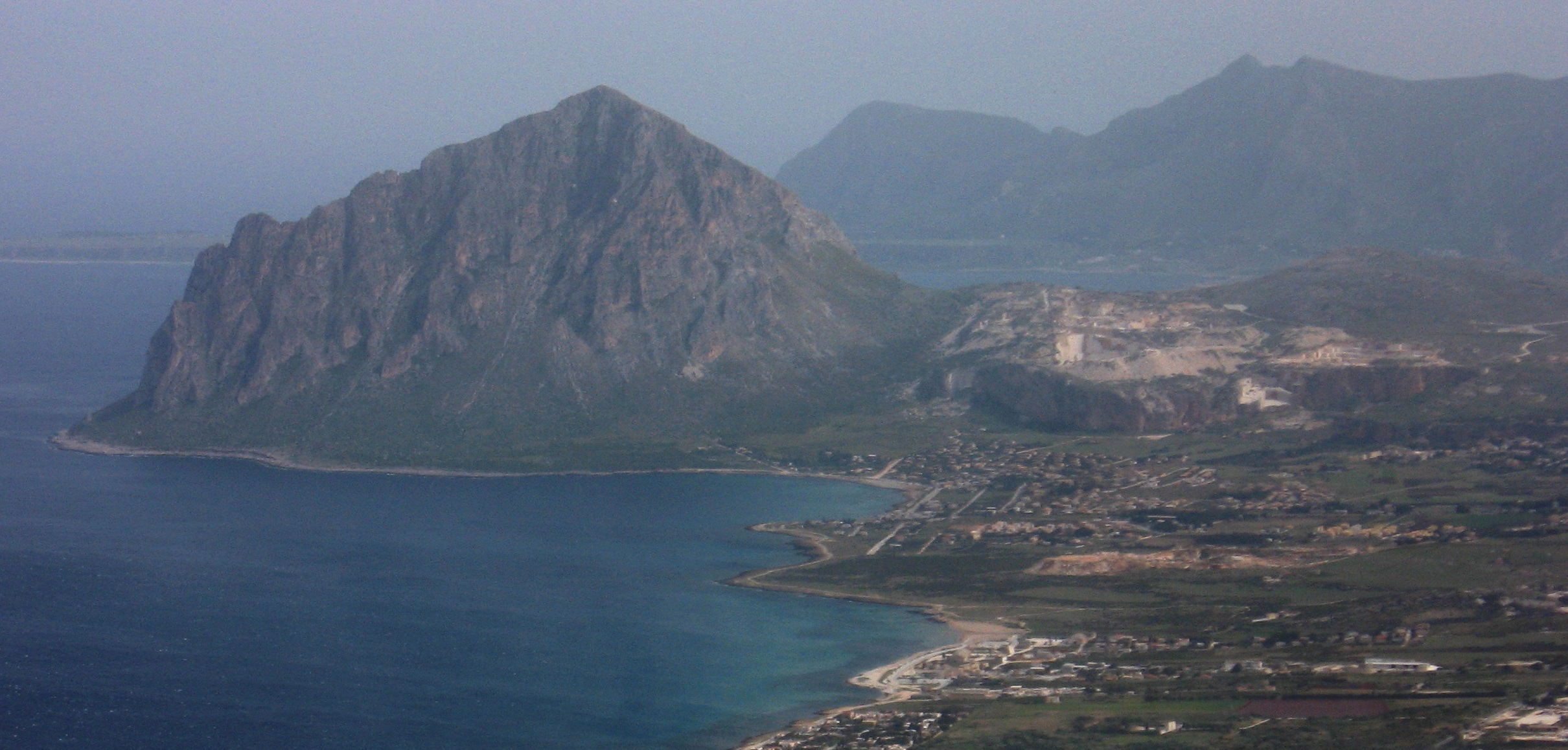 Cornino, Custonaci